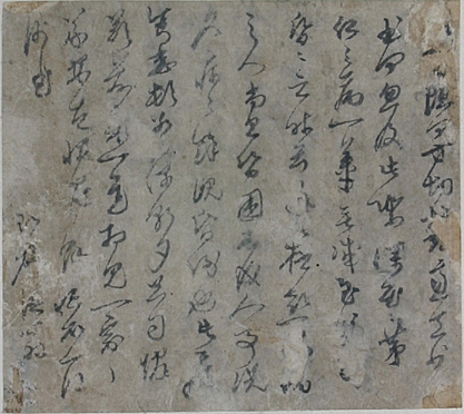 Letter of Shin Suk-ju